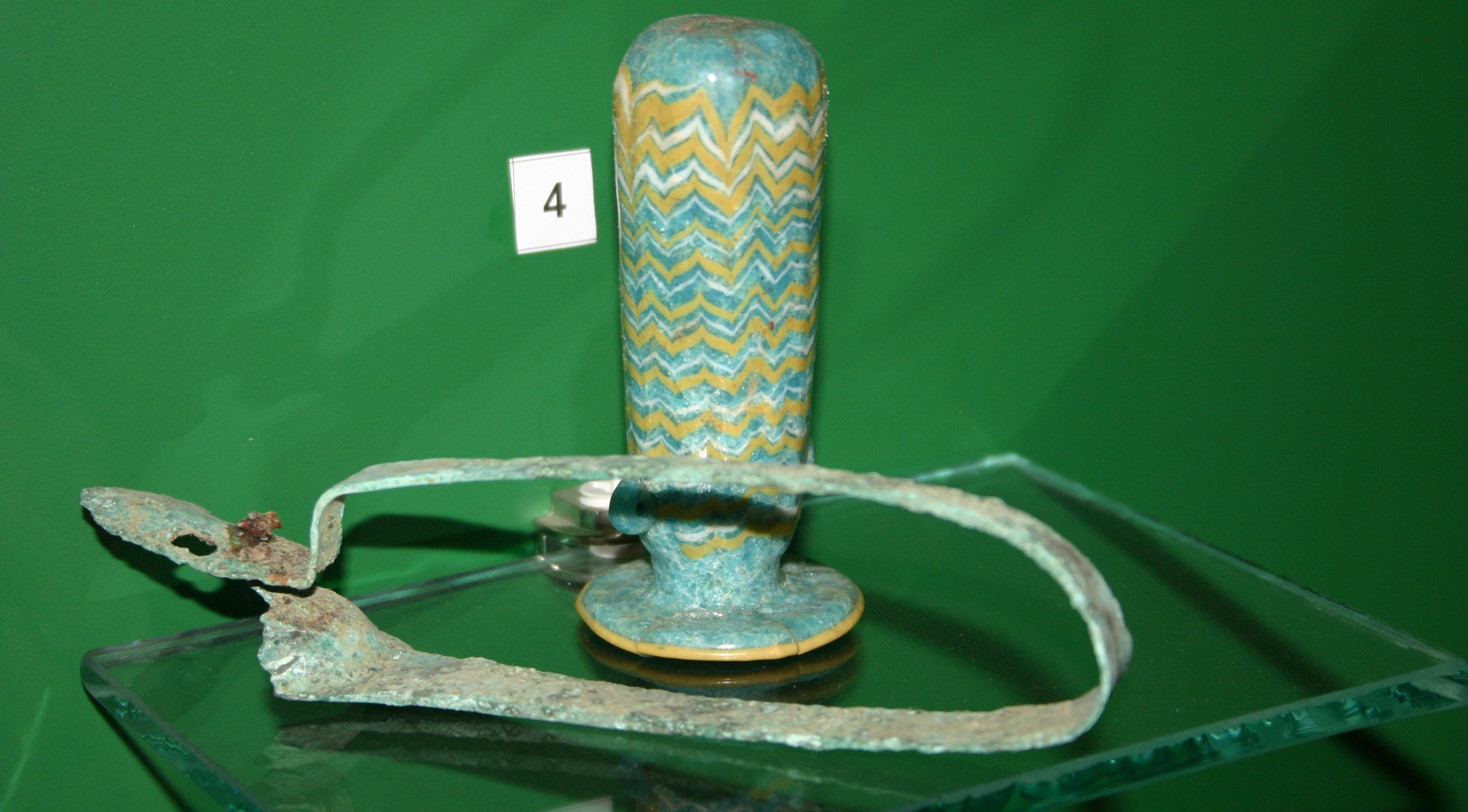 With thanks to the Batumi Archaeological museum for allowing photography